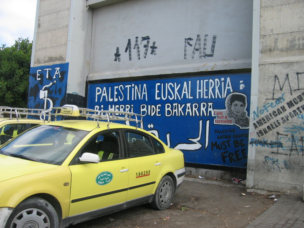 Mural of the Basque independentist organization Euskadi Ta Askatasuna (ETA) supporting Palestinian fight.